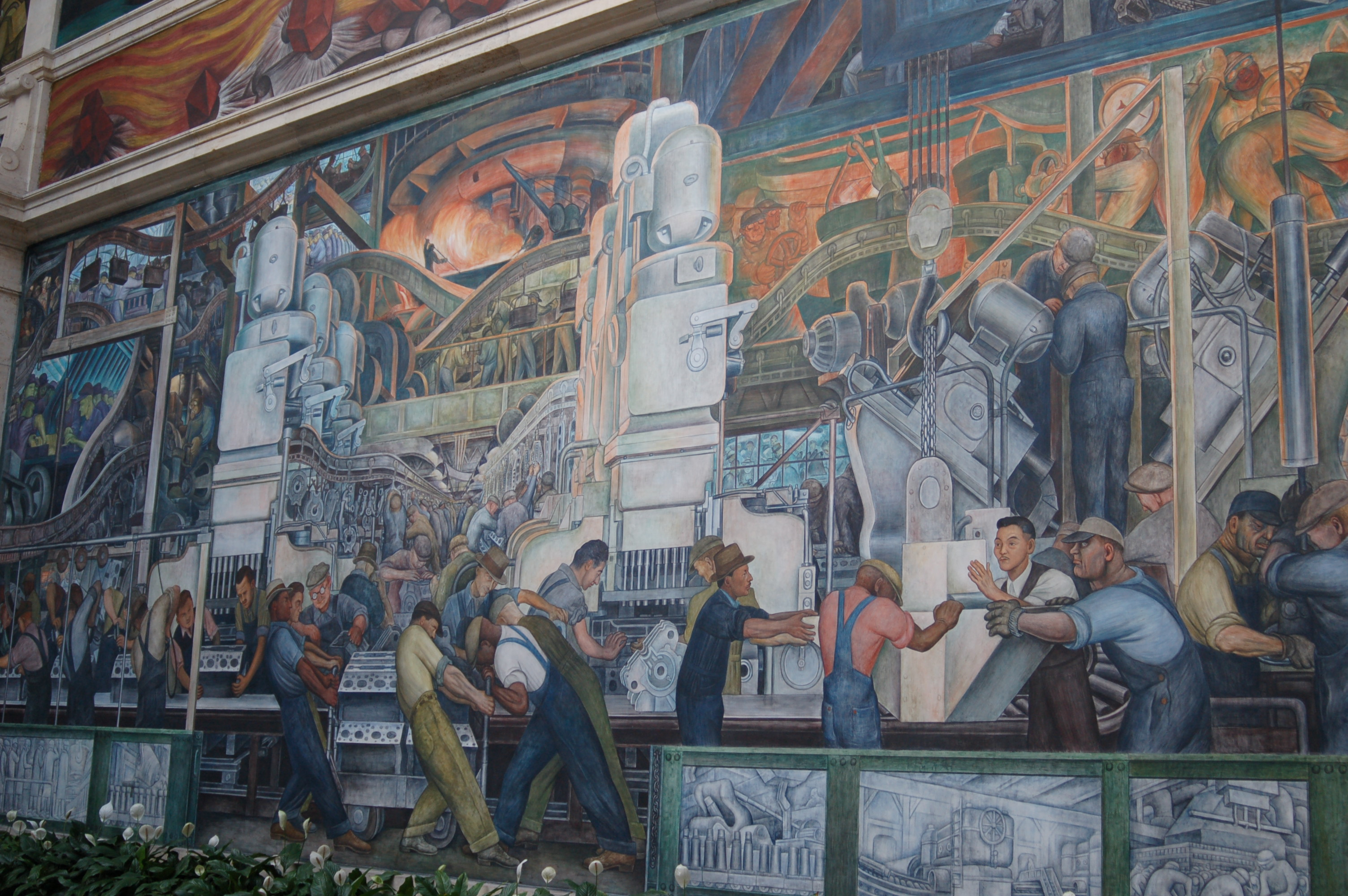 One of Diego Rivera's mammoth Detroit Industry murals at the Detroit Institute of Arts.